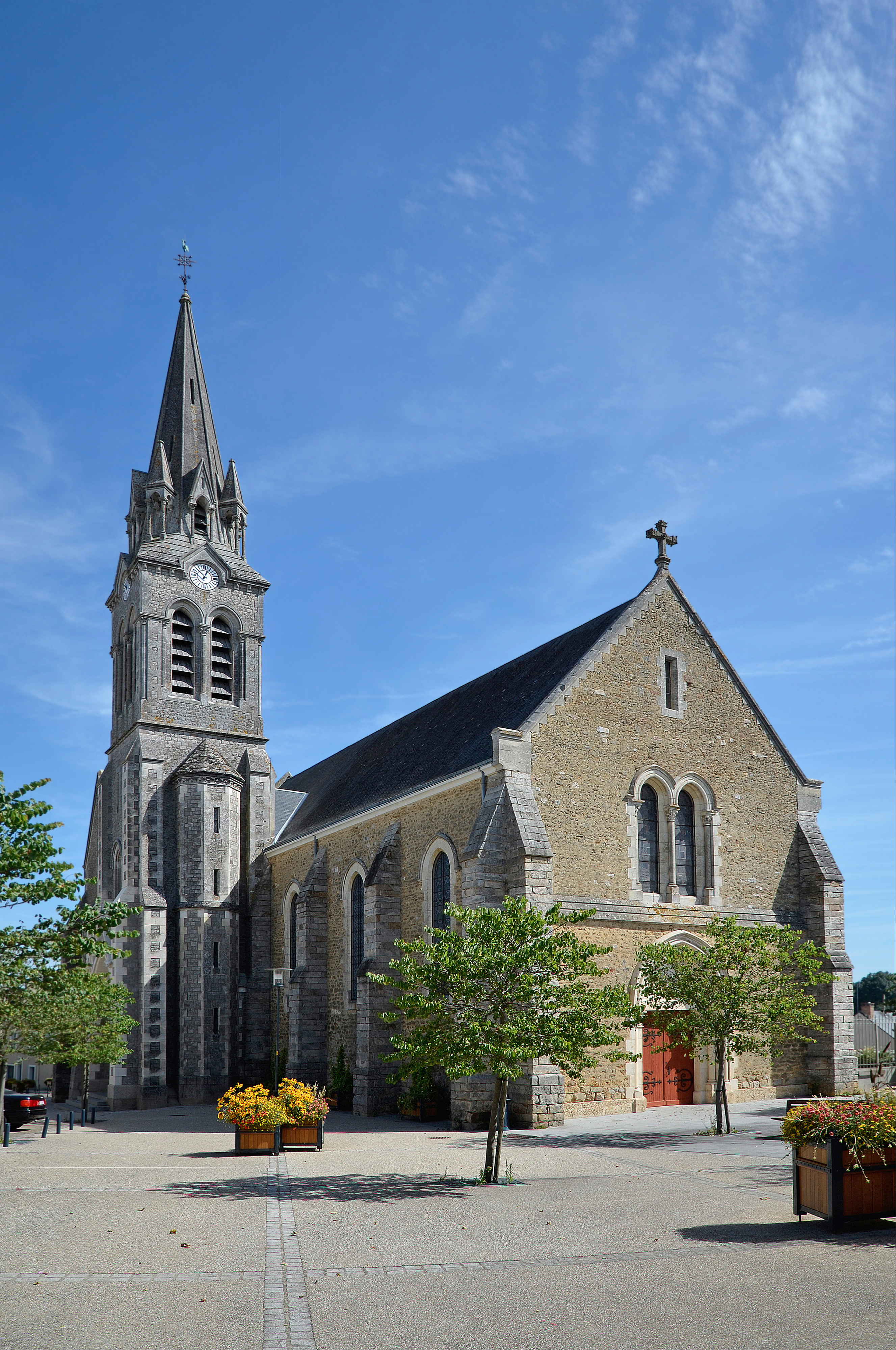 Saint-Germain church - Yvré-l'Évêque - Sarthe, France. .